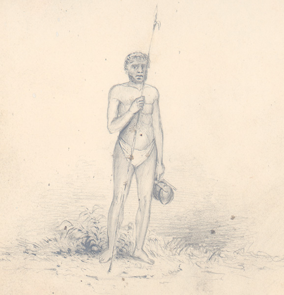 Islanders of Wytoohee (Wutoohee, Disappointment Islands). Alfred T. Agate, Ink and pencil. 1839.